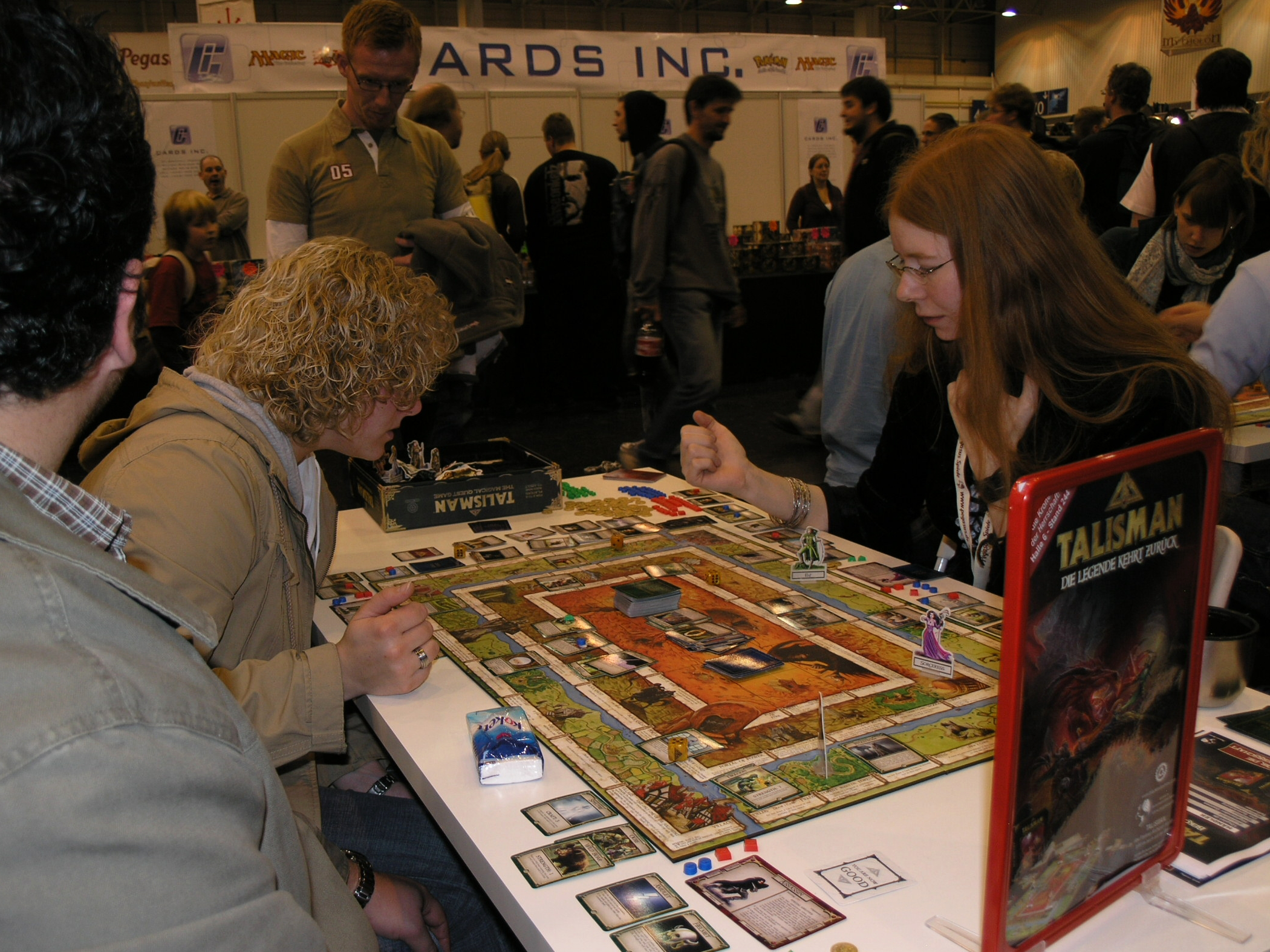 Personality rights warning Although this work is freely licensed or in the public domain, the person(s) shown may have rights that legally restrict certain re-uses unless those depicted consent to such uses. In these cases, a model release or other evidence of consent could protect you from infringement claims.